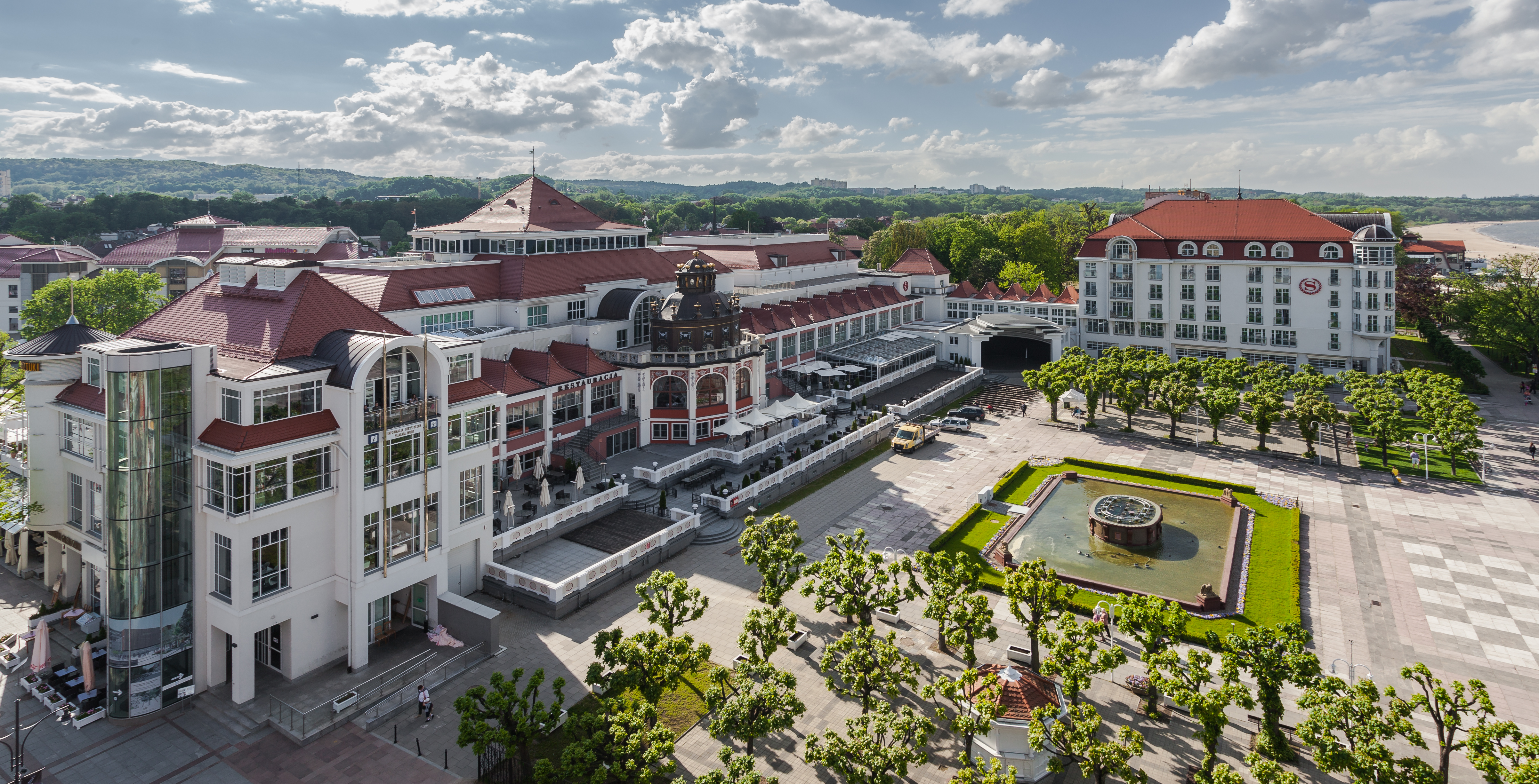 Sheraton Hotel, Sopot, Poland